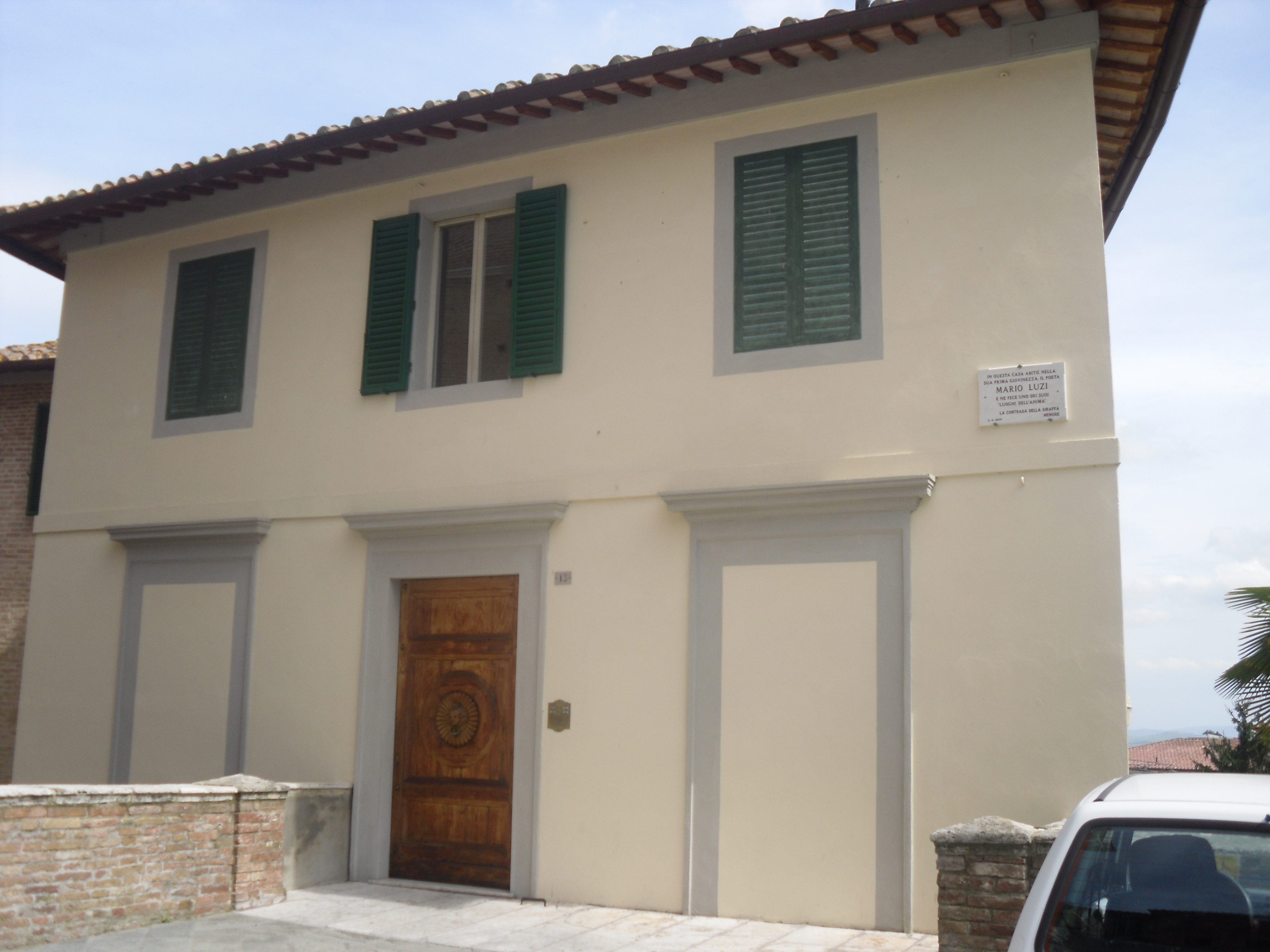 The house where, as a child, lived the poet Mario Luzi. Siena, Italy